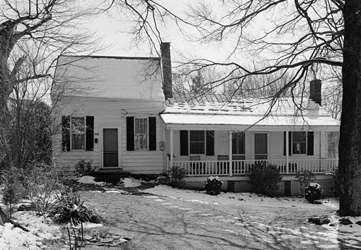 Nash Law Office, 143 West Margaret Lane, Hillsborough (Orange County, North Carolina) - cropped This file comes from the Historic American Buildings Survey (HABS), Historic American Engineering Record (HAER) or Historic American Landscapes Survey (HALS). These are programs of the National Park Service established for the purpose of documenting historic places. Records consist of measured drawings, archival photographs, and written reports. When reusing please credit: Library of Congress, Prints & Photographs Division, NC,68-HILBO,11A-1 This tag does not indicate the copyright status of the attached work. A normal copyright tag is still required. See Commons:Licensing. This work is in the public domain in the United States because it is a work prepared by an officer or employee of the United States Government as part of that person’s official duties under the terms of Title 17, Chapter 1, Section 105 of the US Code. Note: This only applies to original works of the Federal Government and not to the work of any individual U.S. state, territory, commonwealth, county, municipality, or any other subdivision. This template also does not apply to postage stamp designs published by the United States Postal Service since 1978. (See § 313.6(C)(1) of Compendium of U.S. Copyright Office Practices). It also does not apply to certain US coins; see The US Mint Terms of Use. This file has been identified as being free of known restrictions under copyright law, including all related and neighboring rights. Object location36° 04′ 27″ N, 79° 06′ 05″ W